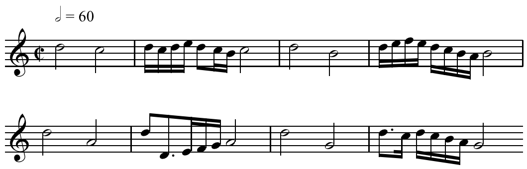 File:Trattado p.5.JPG translated into full and modern notation with values halved.